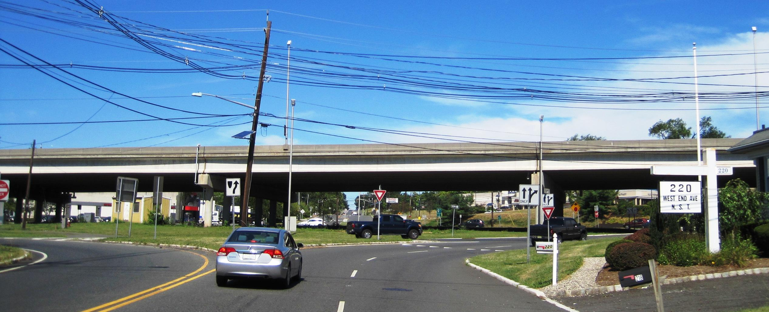 Photo showing the Somerville Circle approaching it from ground level on the east side of New Jersey Route 28. U.S. Route 206 passes through the circle at-grade while US 202 passes over the circle on an overpass. The traffic circle is located in Bridgewater Township and Raritan, New Jersey.